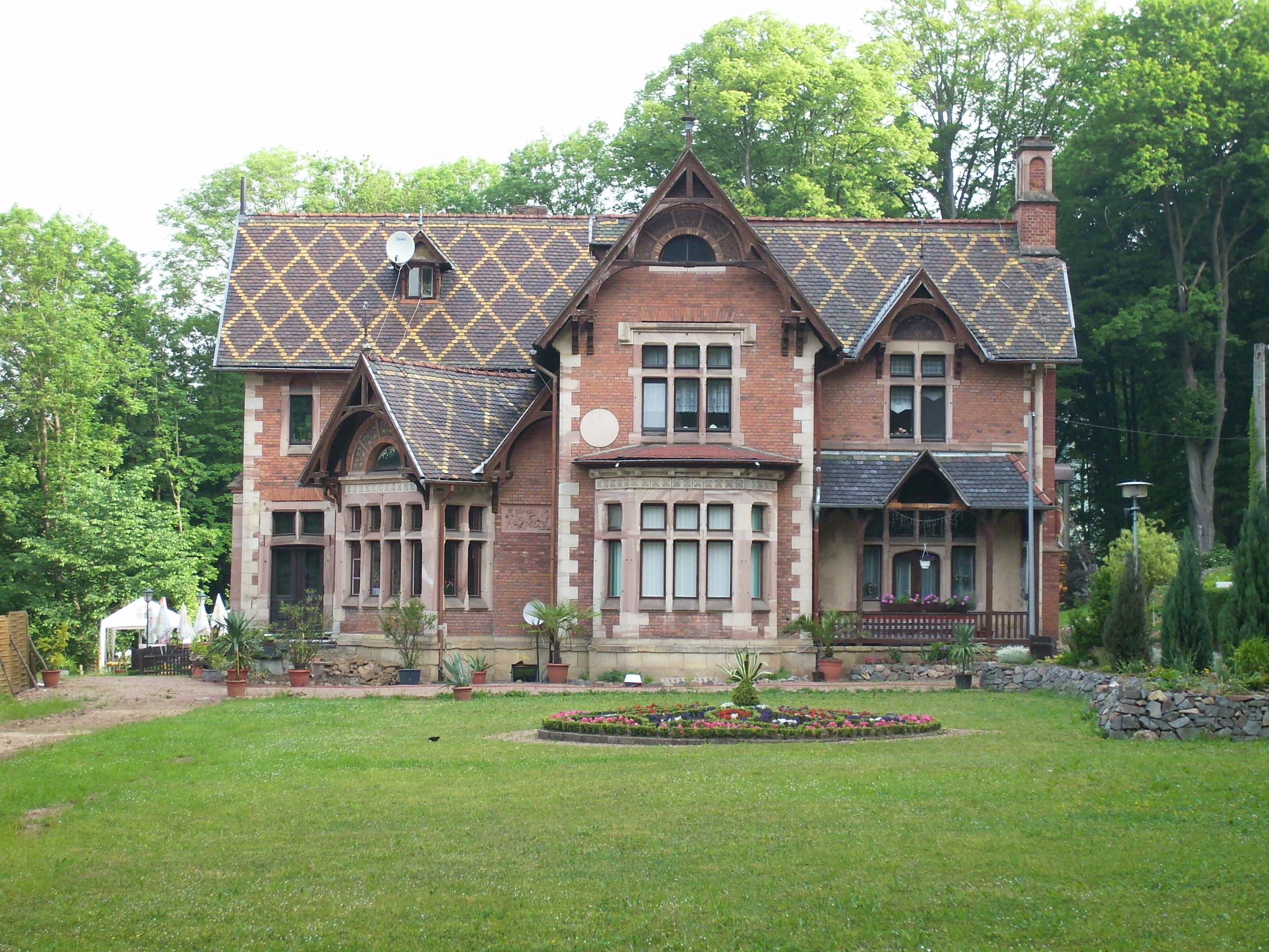 Bad Liebenstein, Villa Georg